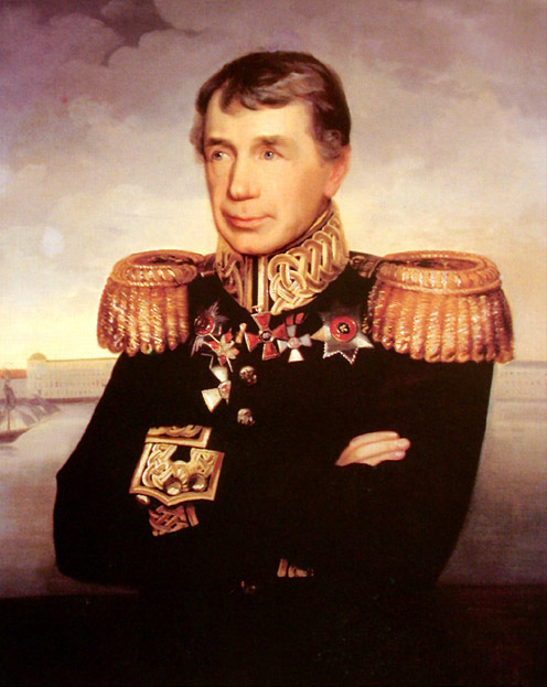 Portrait of the admiral and explorer Ivan Krusenstern (Adam Johann Ritter von Krusenstern) (1770-1846)